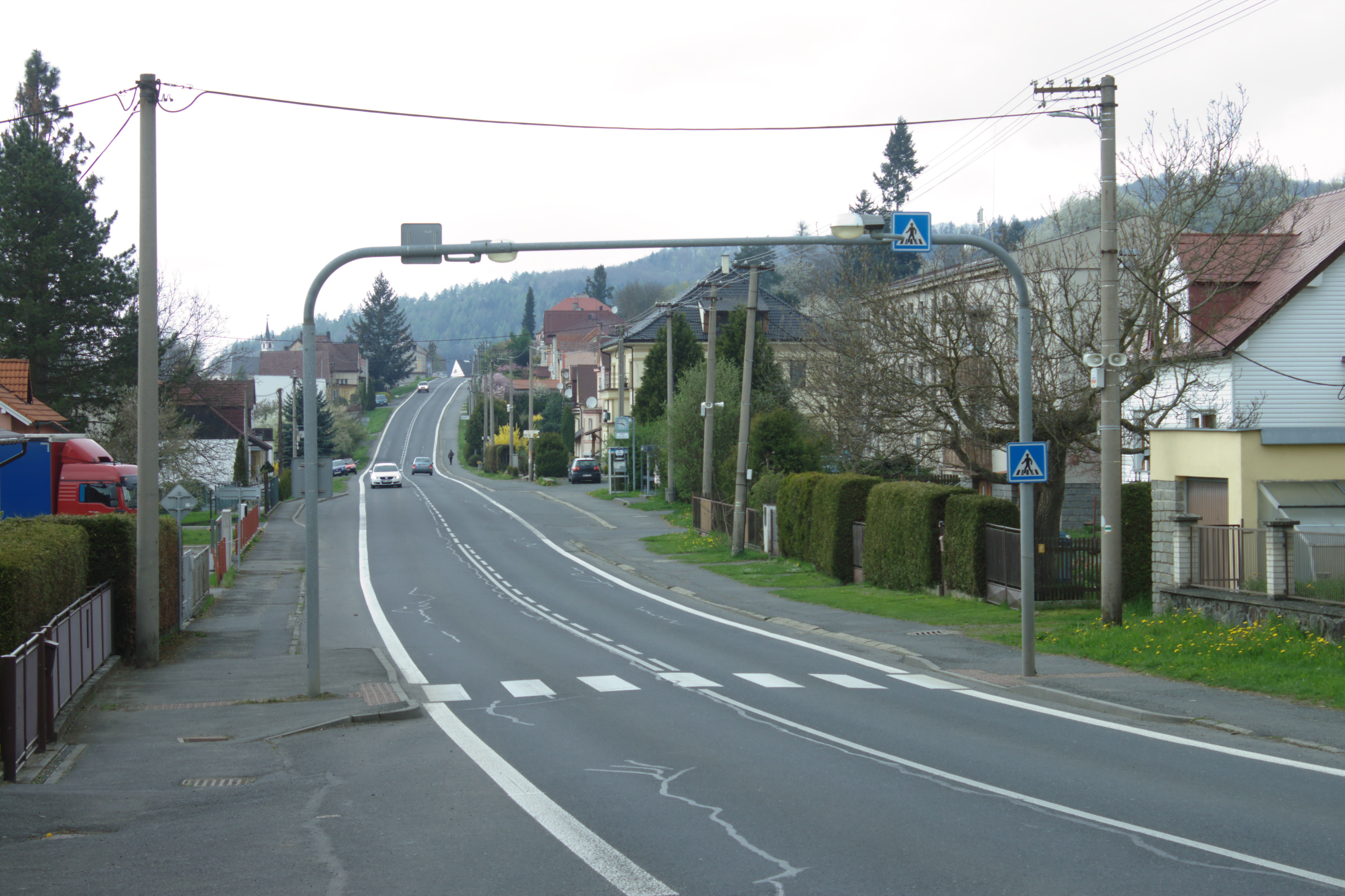 Main road from the village of Domažlice to Klatovy in Brnířov, Plzeň Region, CZ